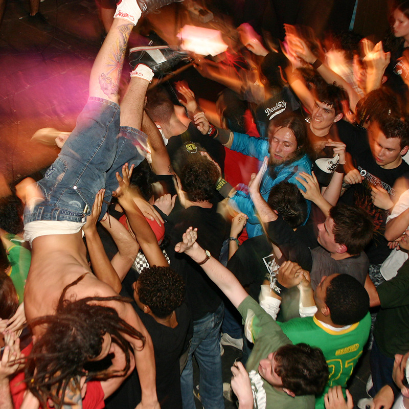 A man crowdsurfing in a moshpit, uploaded from flickr